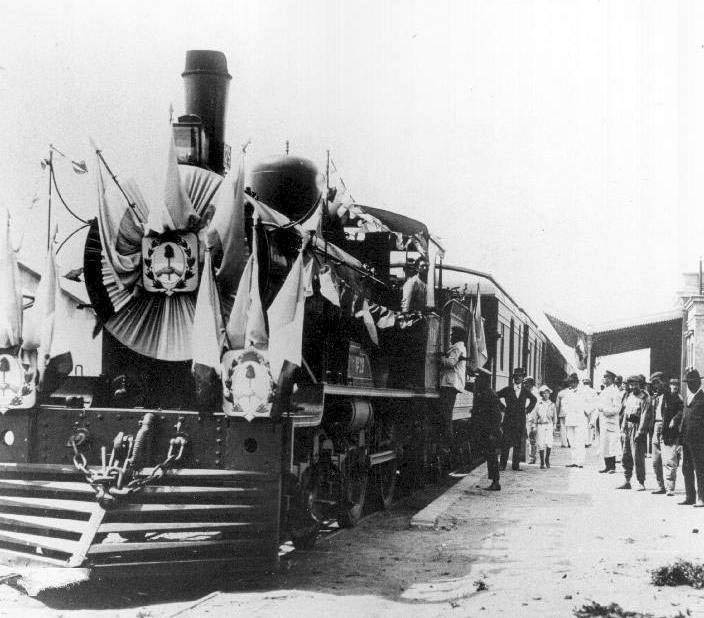 Train pulled by steam locomotive in the inaugural trip of the Rosario and Puerto Belgrano Railway.